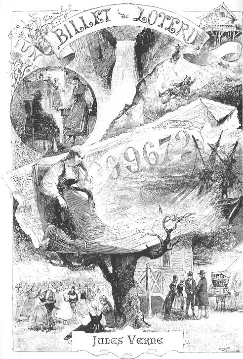 An illustration from the novel "The Lottery Ticket" by Jules Verne drawn by George Roux. It was also published in USA under the title Ticket No. "9672".